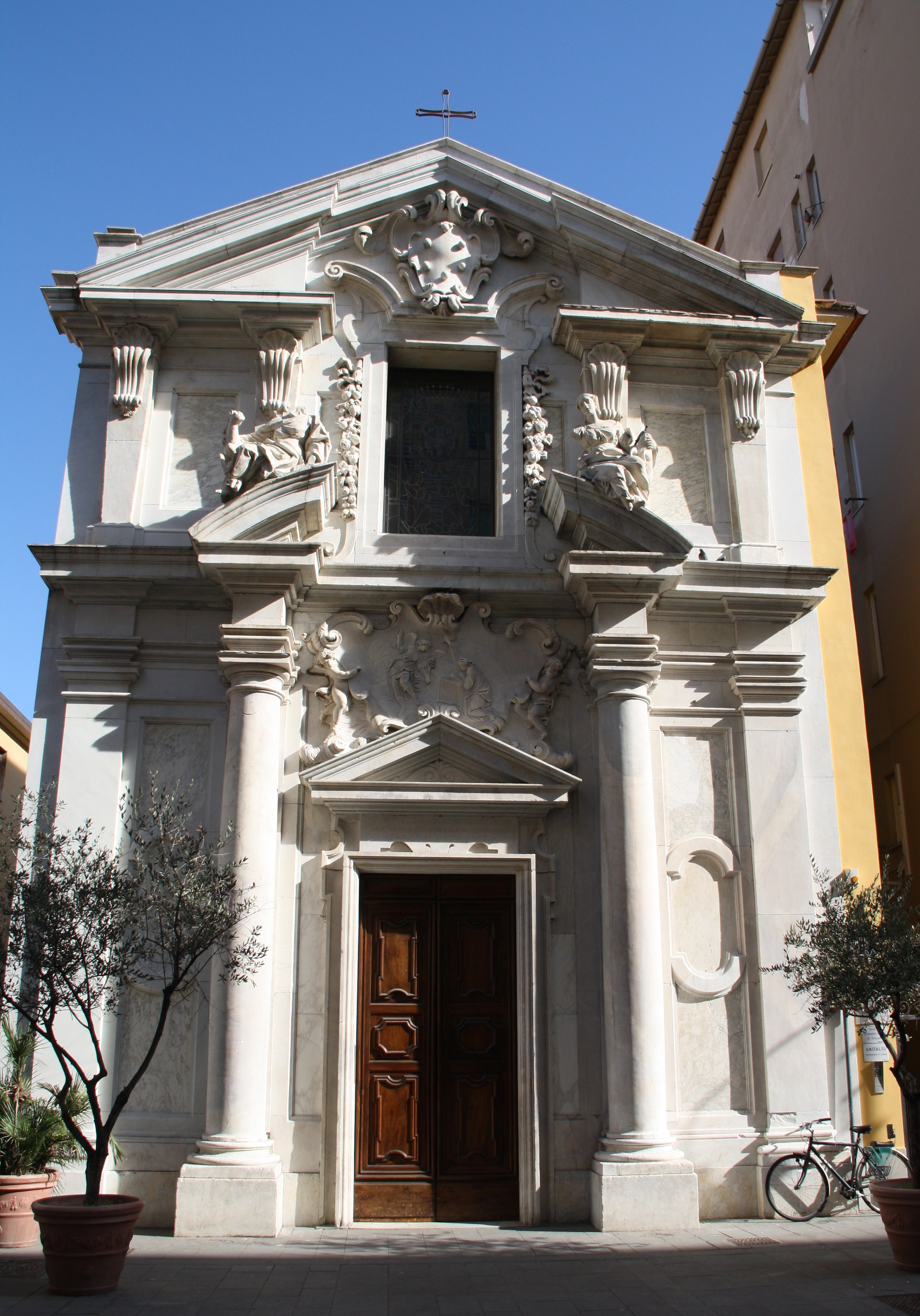 Italy, Livorno, Via della Madonna. The Church of the Most Holy Annunciation.